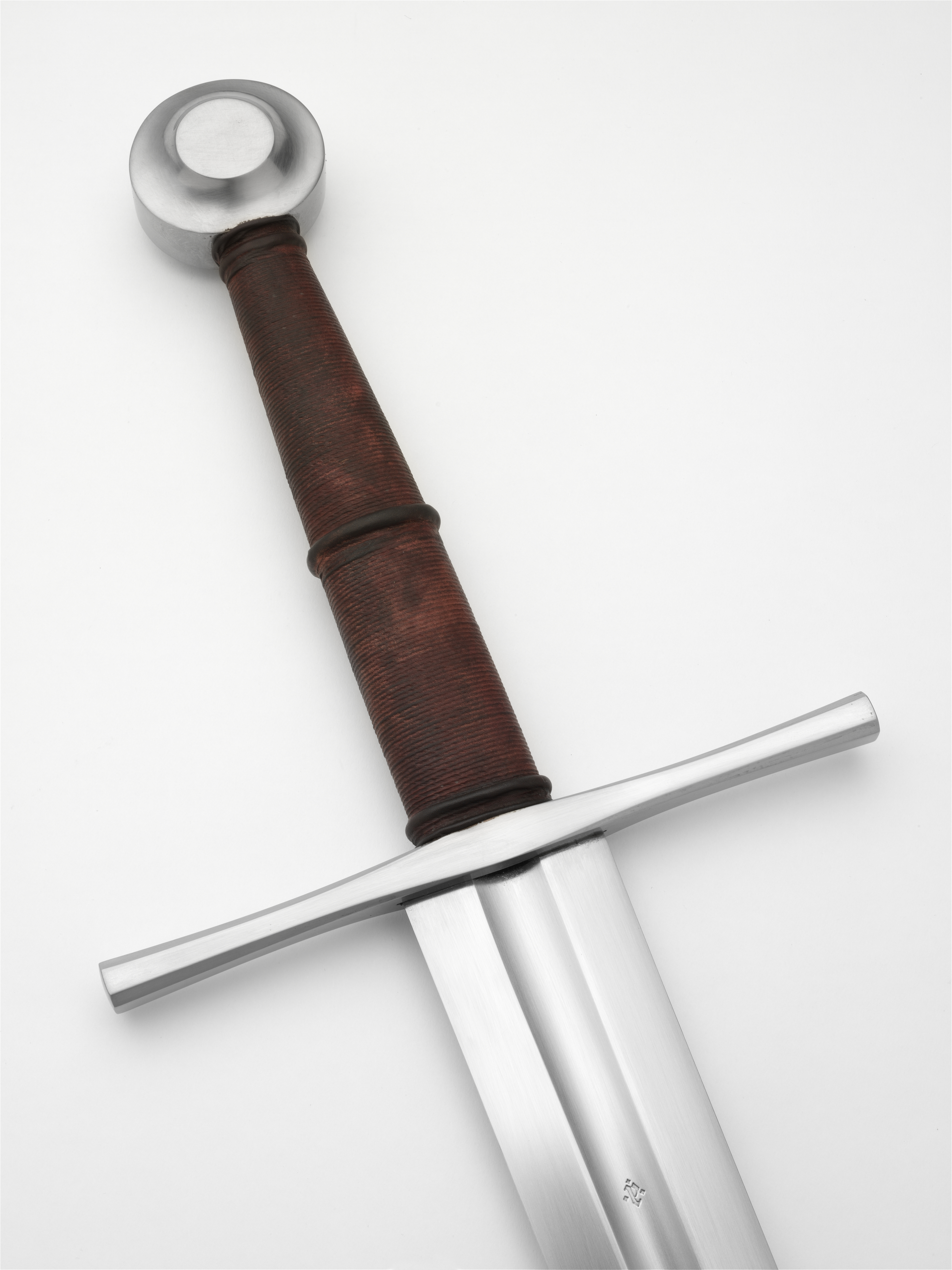 The Crecy Limited Edition Medieval War Sword